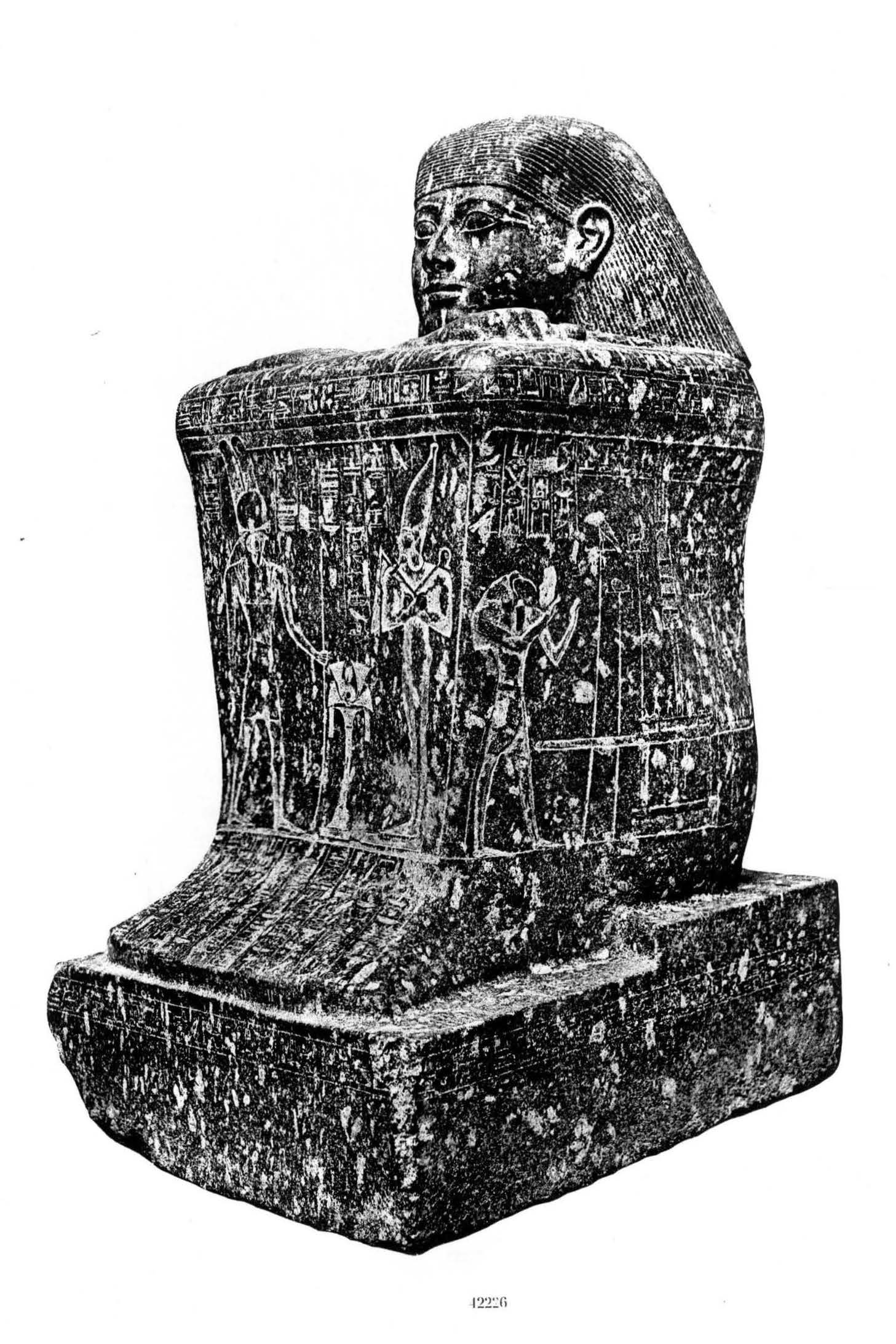 Block statue of the ancient Egyptian priest Hor IX, with long inscription and cartouches of king Pedubast I. Speckled granite (H 110 cm), found in Karnak Cachette in January 6, 1904. Reign of Pedubast I, 23rd Dynasty, Third Intermediate Period. Now in Cairo Museum (CG 42226 / JE 36575).